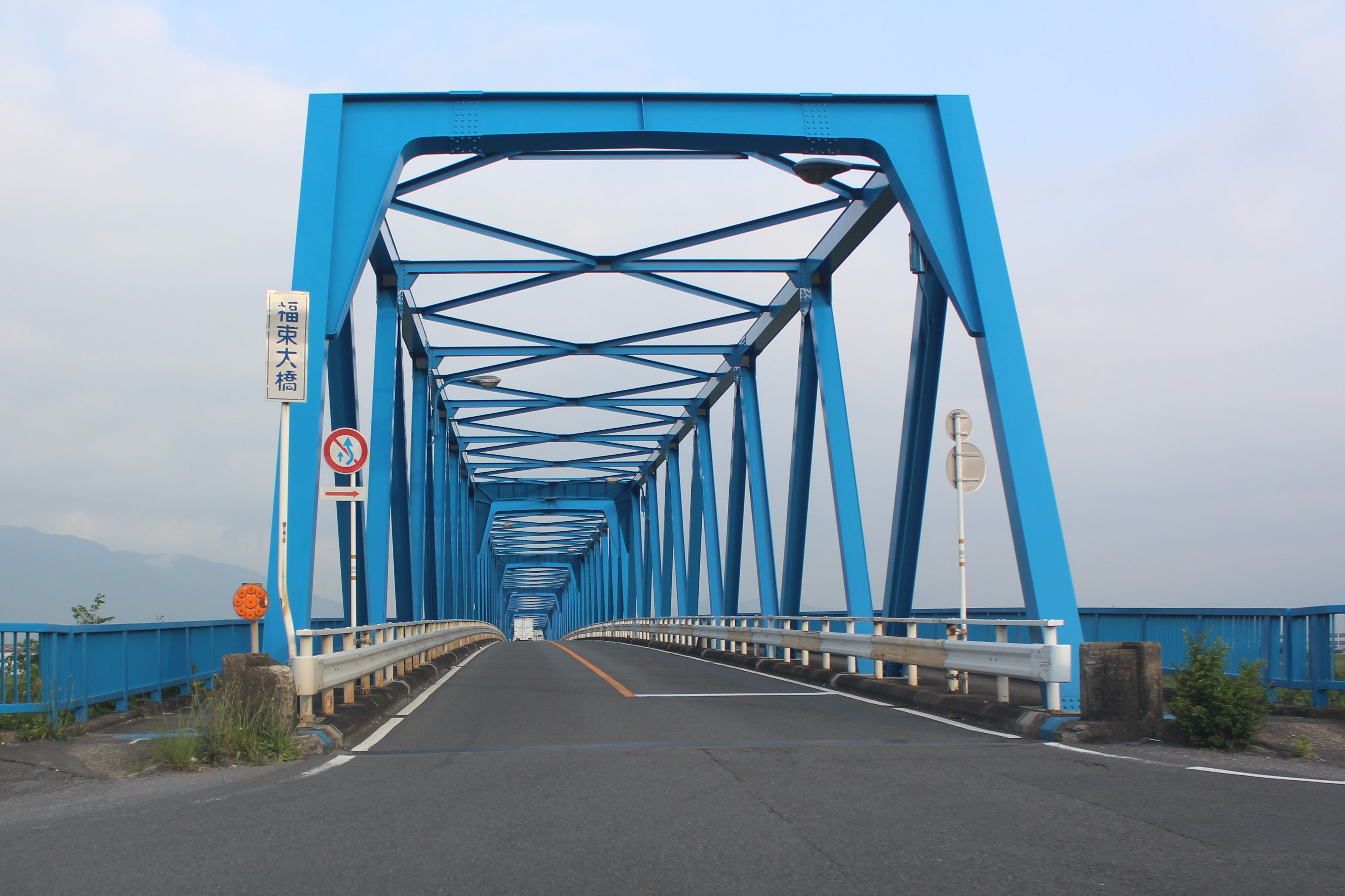 Fukuzuka Bridge (Fukuzuka-Ōhashi), a bridge of Gifu Prefectural Road Route 30 (Hashima-Yōrō Line) over Ibi River in Wanouchi, Gifu Prefecture, Japan.